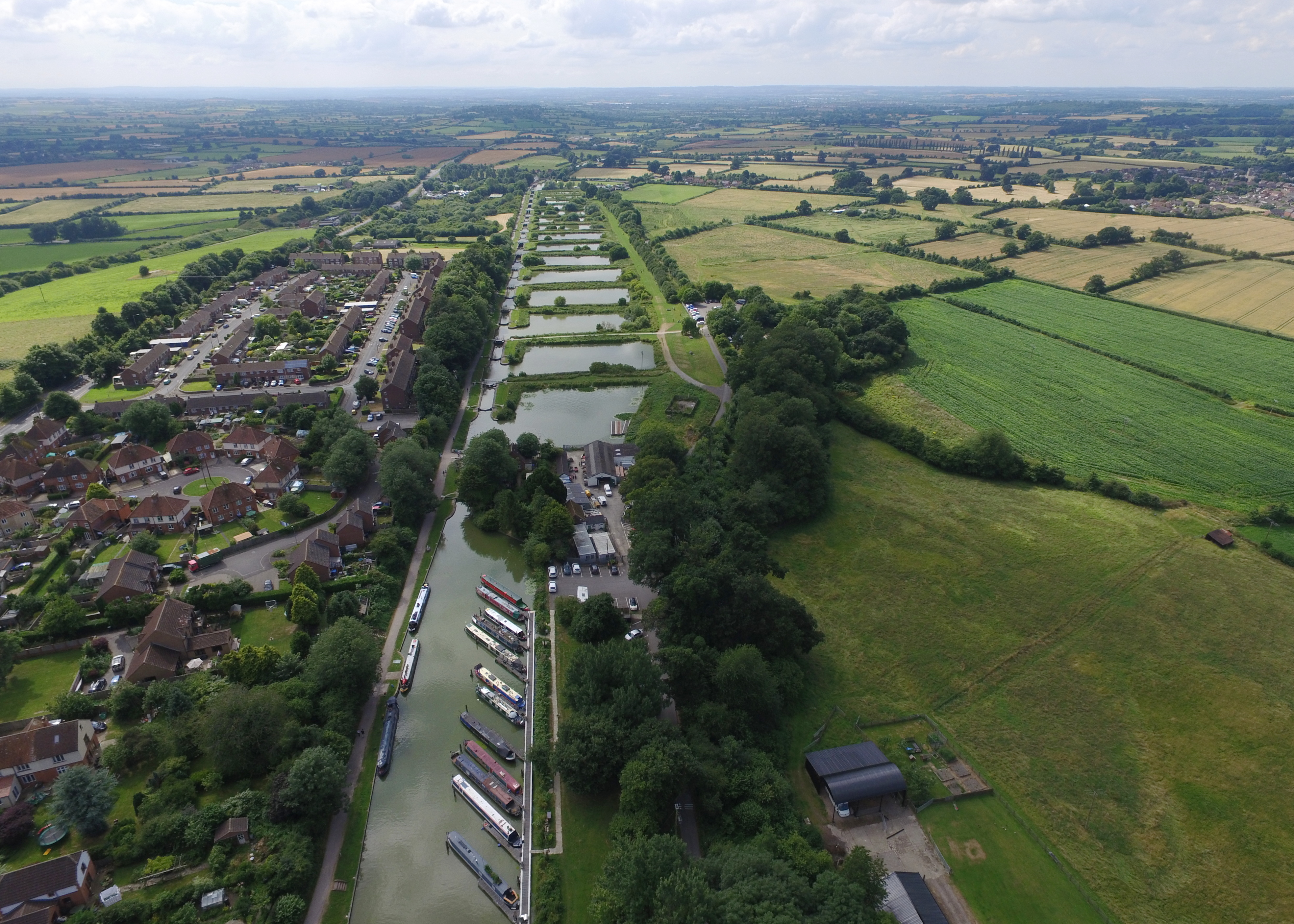 Caen Hill Locks from the air (DJI Phantom 3 Pro).